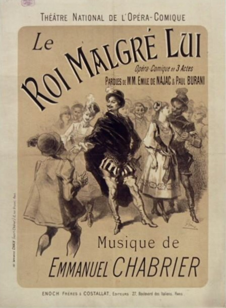 Poster by Jules Chéret for 1887 Opéra-Comique production of Le Roi malgré lui by Emmanuel Chabrier